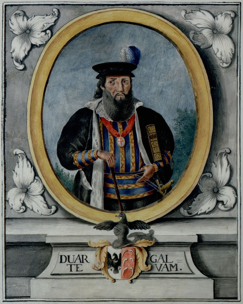 Portrait of Duarte Galvão, in the manuscript of his Crónica do Rei D. Afonso Henriques in the Library of the University of Coimbra